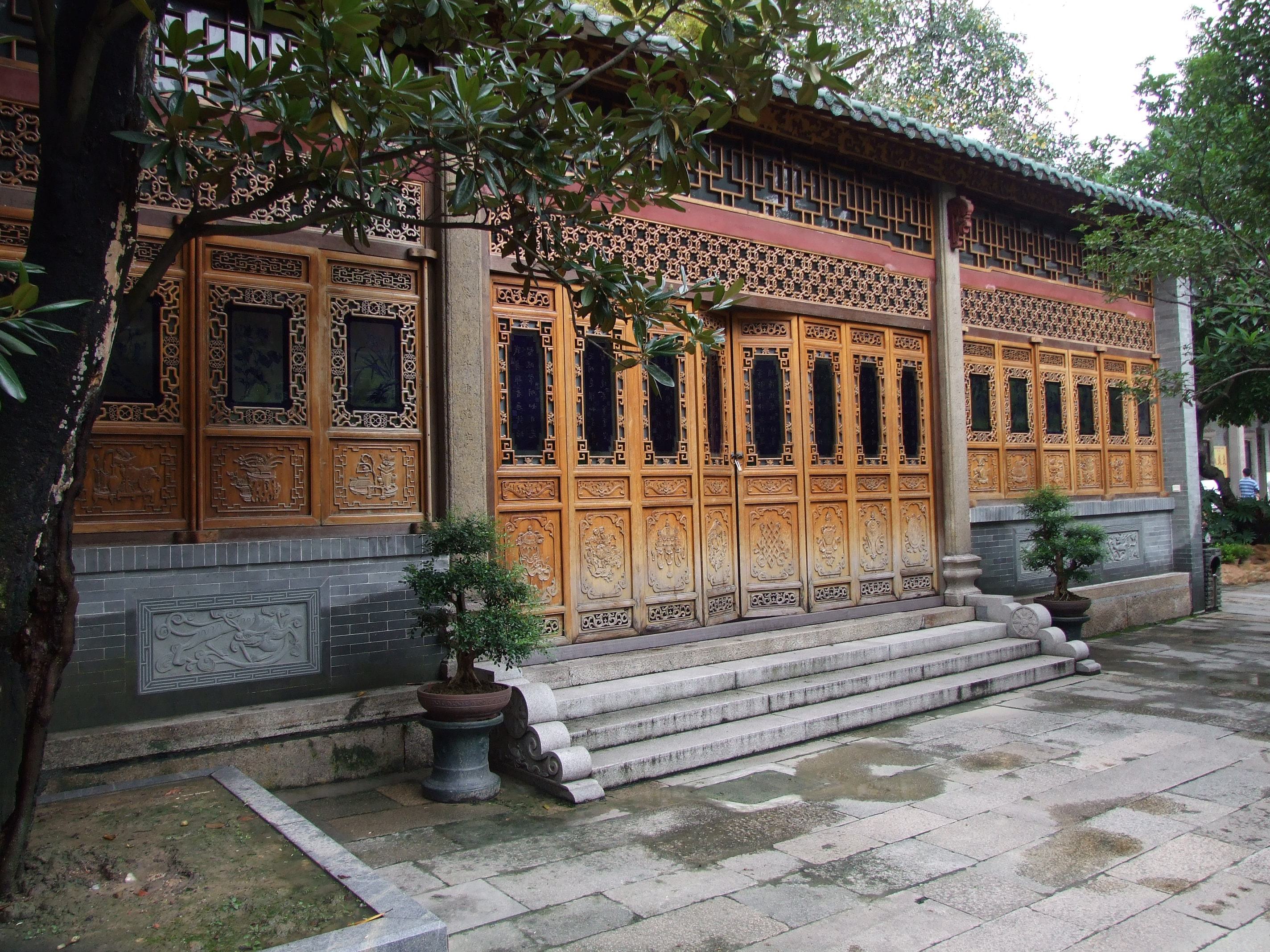 Temple of the Six Banyan Trees Building